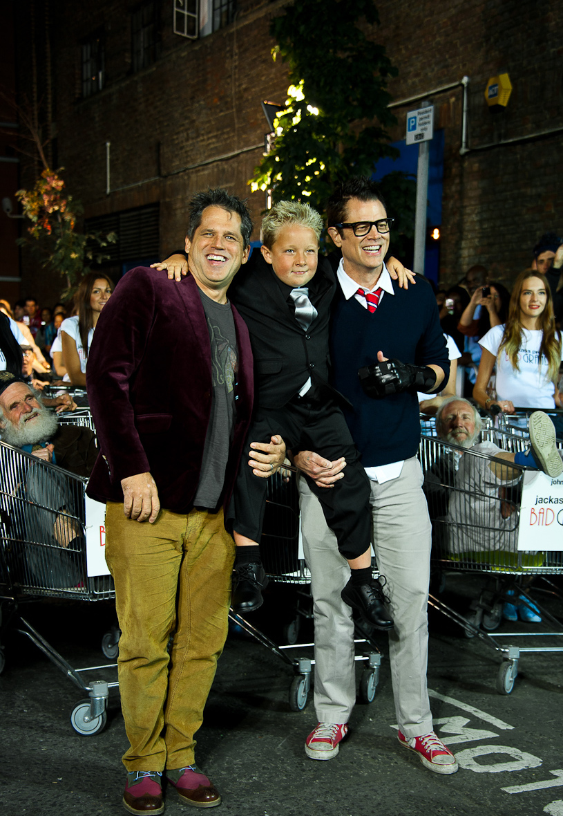 Jeff Tremaine, Jackson Nicholl, and Johnny Knoxville at a showing for Jackass Presents: Bad Grandpa.